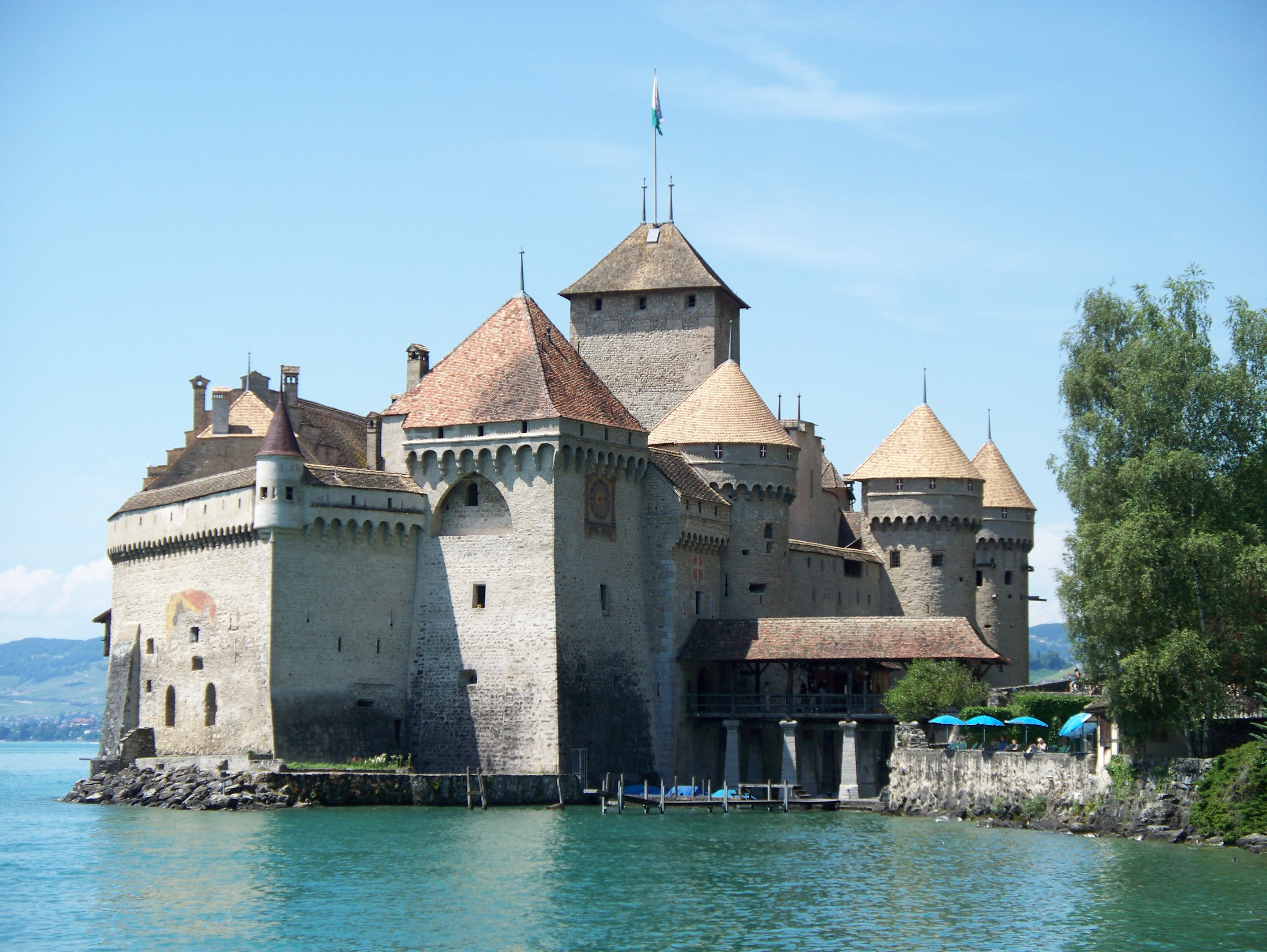 View from the East of the Chateau de Chillon in the Summer.